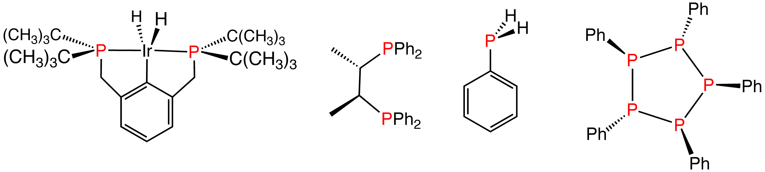 chemical structures of illustrative phosphines